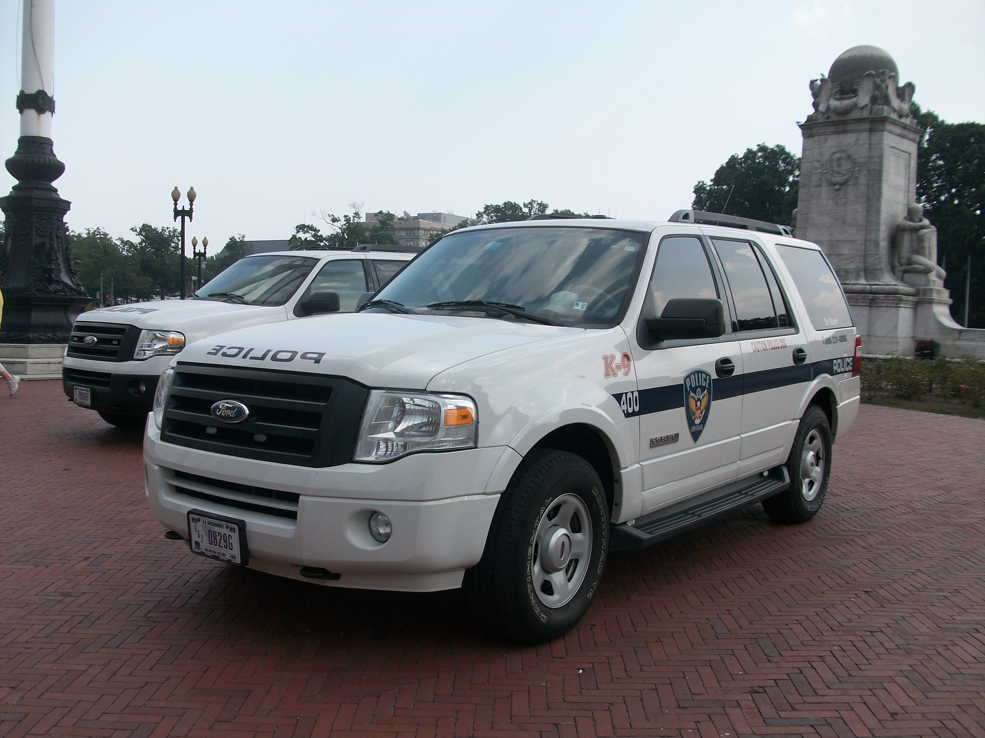 Amtrak Police SUV in front of the Washington D.C. station